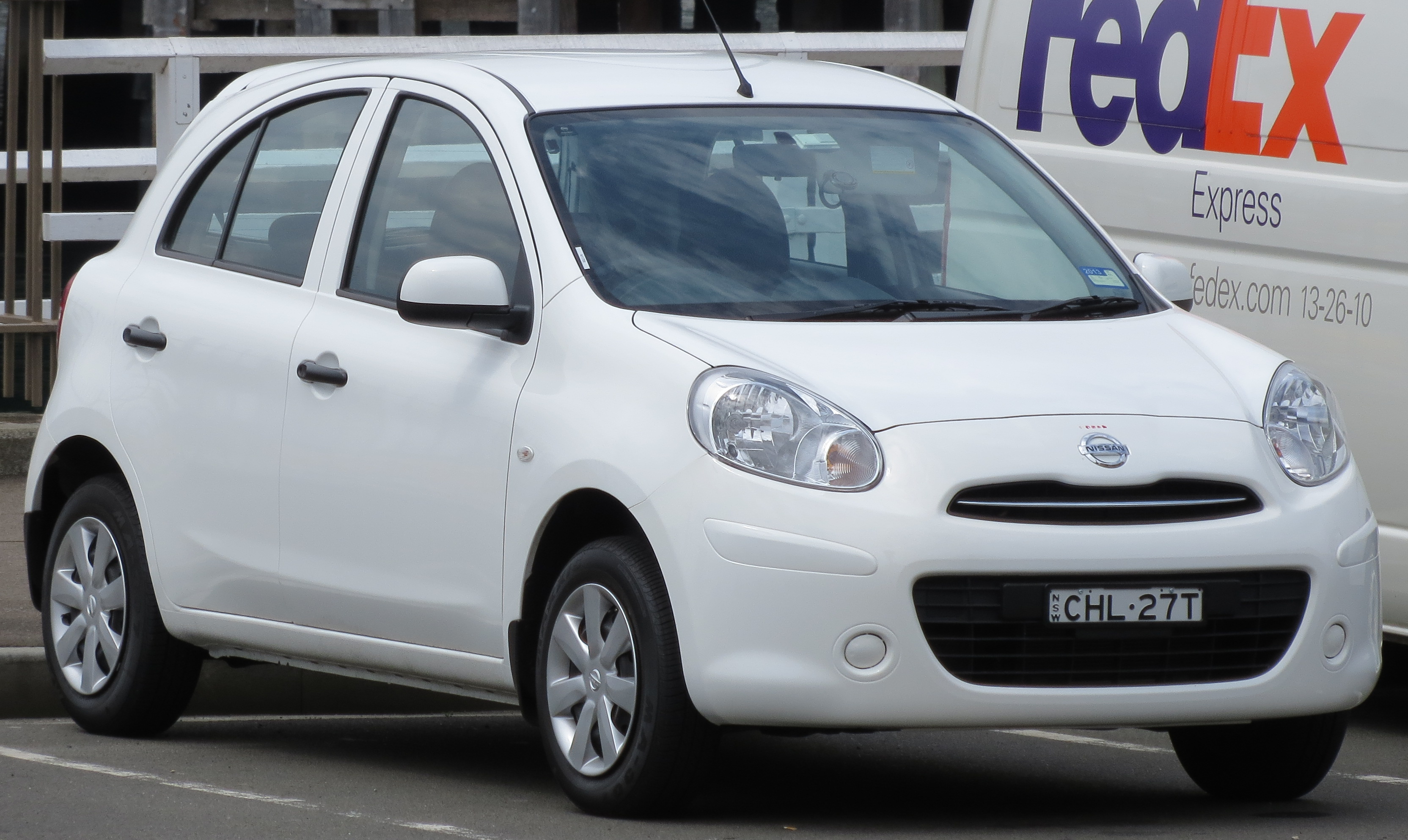 2012 Nissan Micra (K13) ST hatchback. Photographed in Millers Point, New South Wales, Australia.